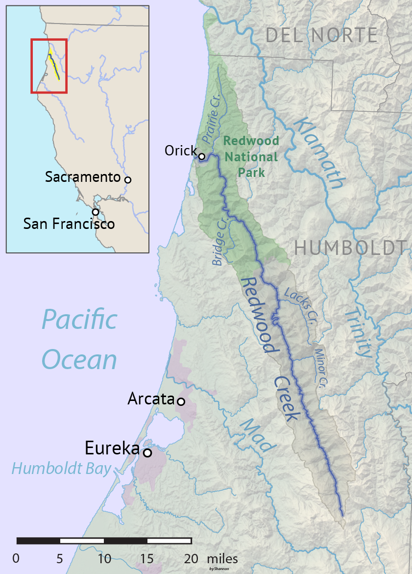 Map of the Redwood Creek drainage basin in Humboldt County, CA. Made using USGS National Map and NASA SRTM data.